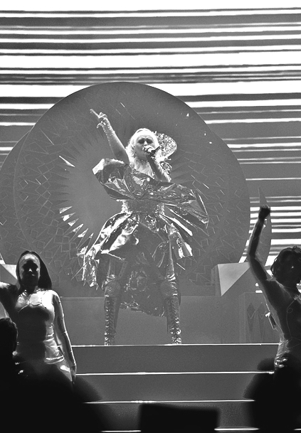 Christina Aguilera, 21.07.2019 - Christina Aguilera, Saint-Petersburg